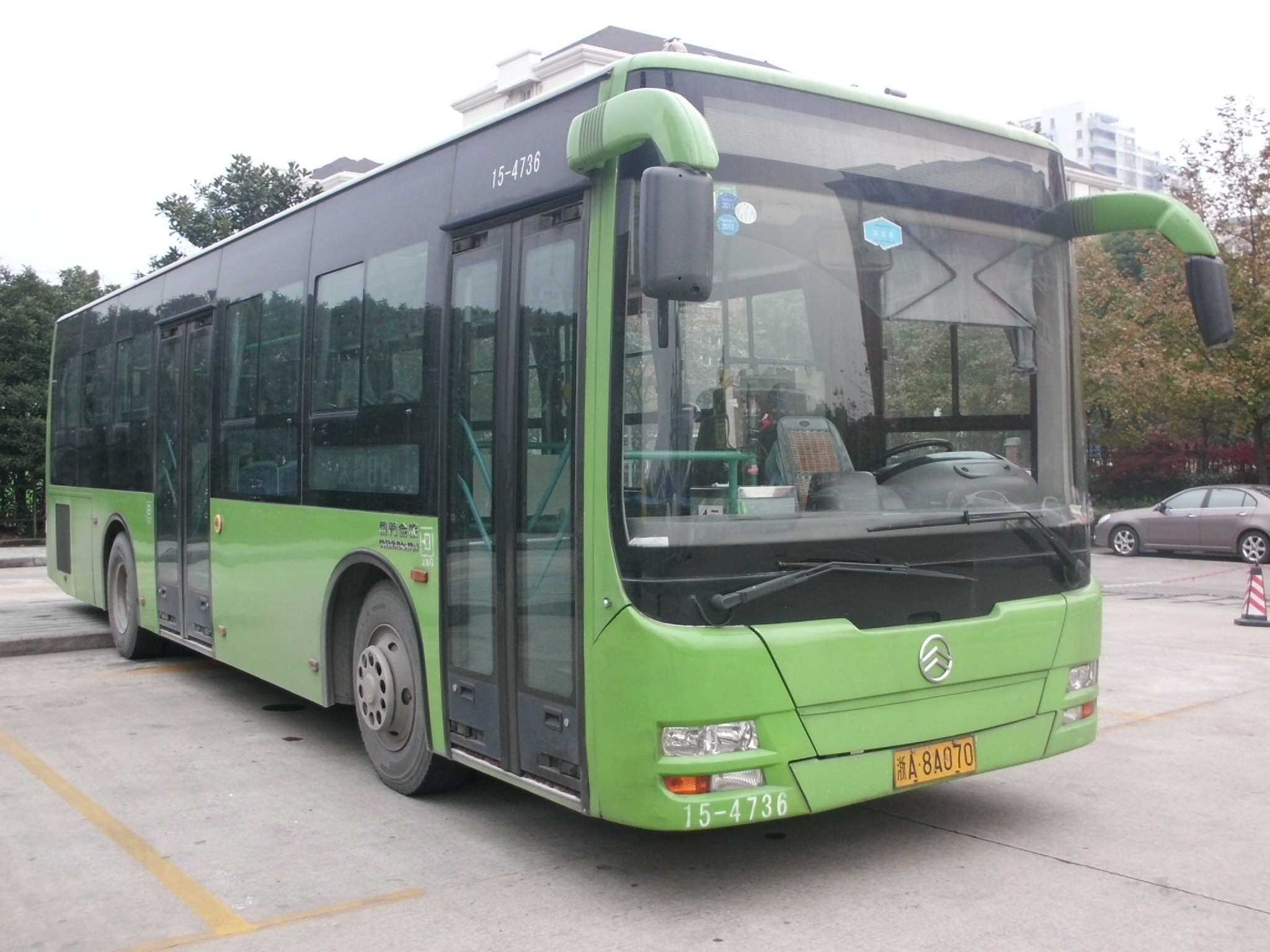 xiasha bus